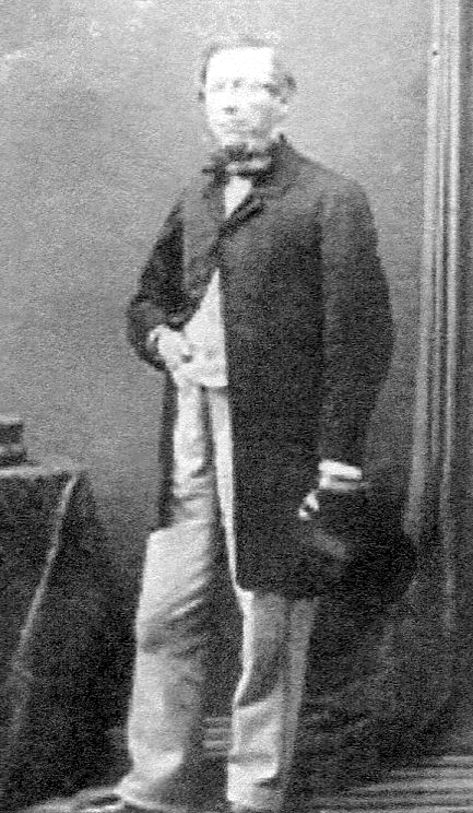 Photograph of Edmund Sharpe in 1845